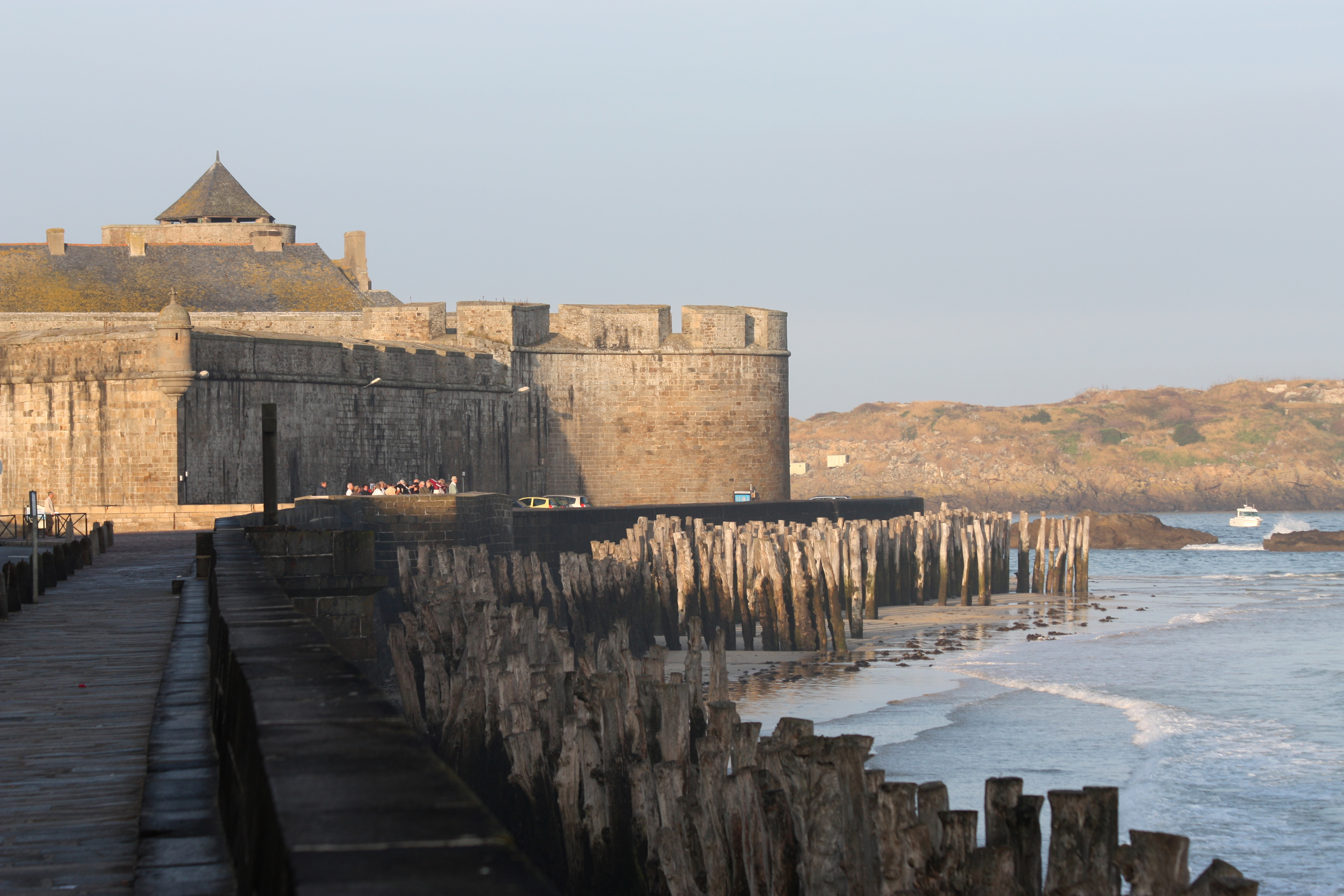 The castle of Saint-Malo, seen from the Sillon.